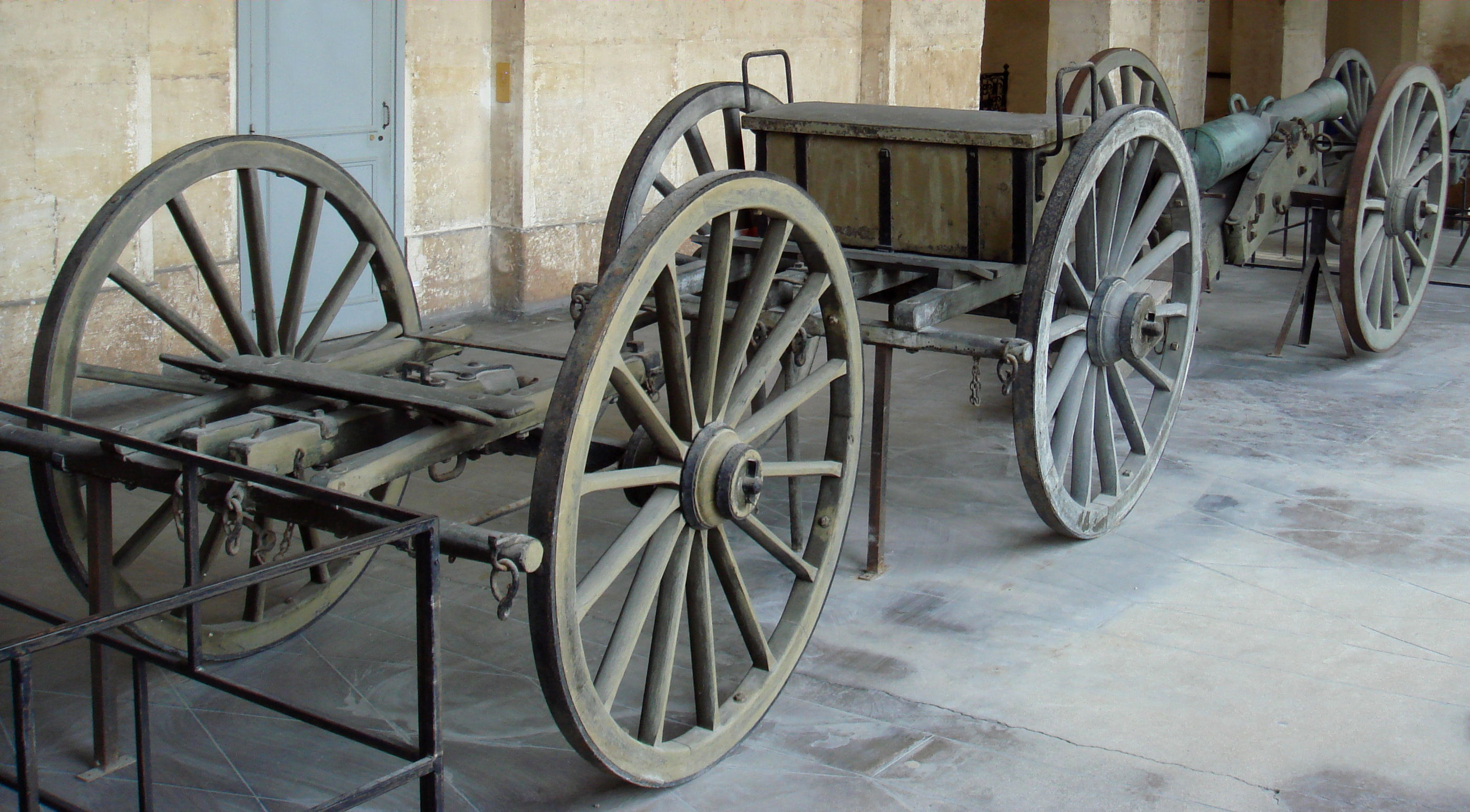 Valee_artillery_train canon de 12 1854